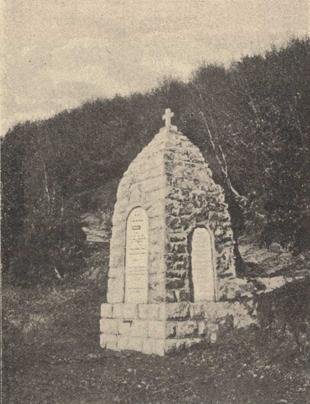 Monument of Mechkin Kamen